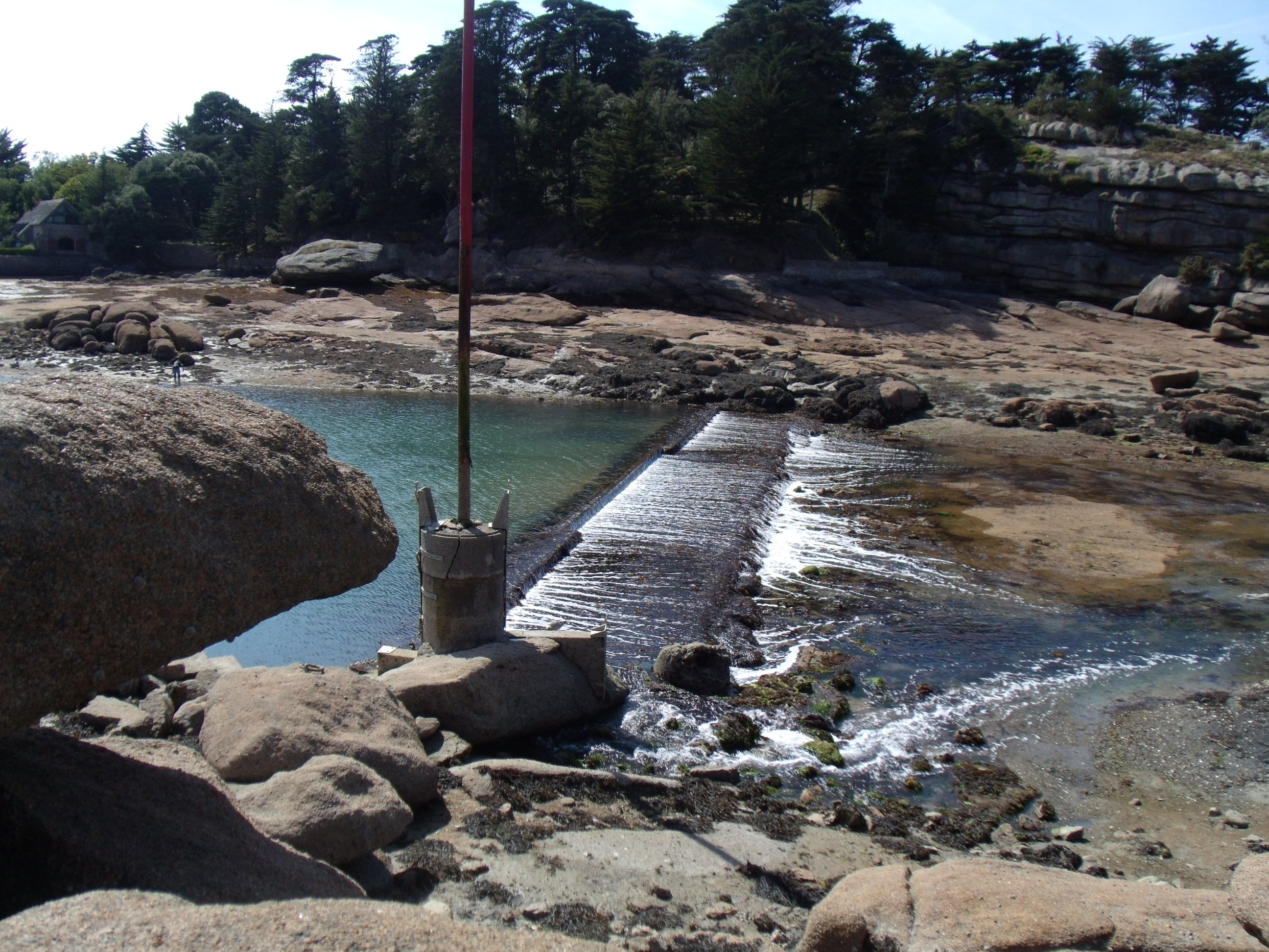 The wall, in low tide, at the entry of the port of Ploumanac'h